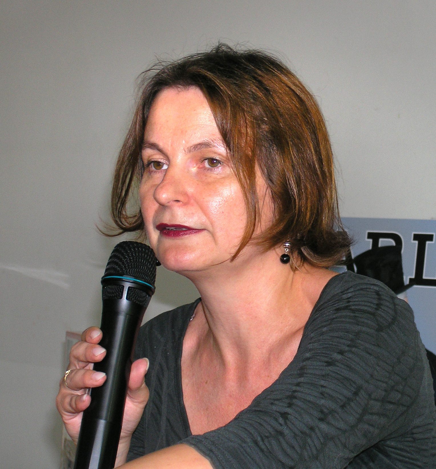 Radka Denemarková, Czech writer, at the Book Fair in Ostrava, Czech Republic